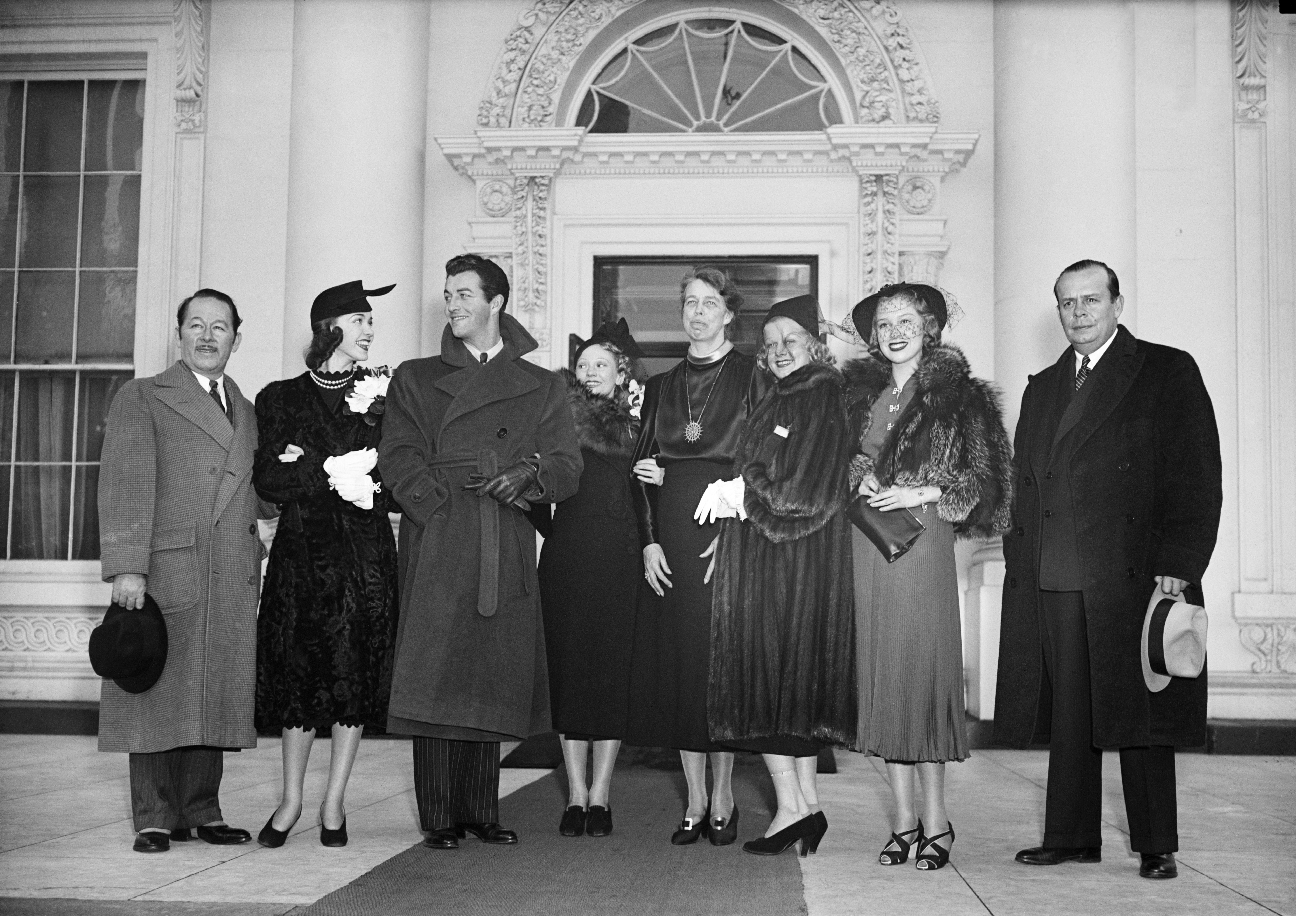 Photograph of Eleanor Roosevelt on the portico of the White House following a luncheon for celebrities taking part in the President's Birthday Ball fundraising activities to benefit the fight against infantile paralysis.Standing left to right: Frederick Jagel, Marsha Hunt, Robert Taylor, Maria Gamberelli, Eleanor Roosevelt, Jean Harlow, Mitzi Green, George Allen.Complete caption reads as follows:MOVIE FOLK LUNCHEON GUESTS AT WHITE HOUSE. WASHINGTON, D.C. JANUARY 30. THE MOVIE STARS THAT ARE IN WASHINGTON TO HELP CELEBRATE THE PRESIDENT'S BIRTHDAY PARTY WERE LUNCHEON GUESTS OF MRS. ROOSEVELT AT THE WHITE HOUSE TODAY. THEY MET THE PRESIDENT AND ALL WISHED HIM A HAPPY BIRTHDAY. L TO R: FREDERICK JAGEL, METROPOLITAN OPERA TENOR; MISS MARSHA HUNT; ROBERT TAYLOR; MISS MARIA GAMBERELLI, DANCER; MRS. F.D. ROOSEVELT; MISS JEAN HARLOW; MISS MITZI GREEN; AND COMMISSIONER GEORGE ALLEN ON THE PORTICO OF THE WHITE HOUSE